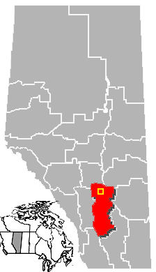 Location of Three Hills, Census Division No. 5, Albera